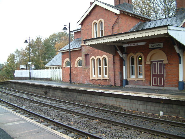 Codsall railway station